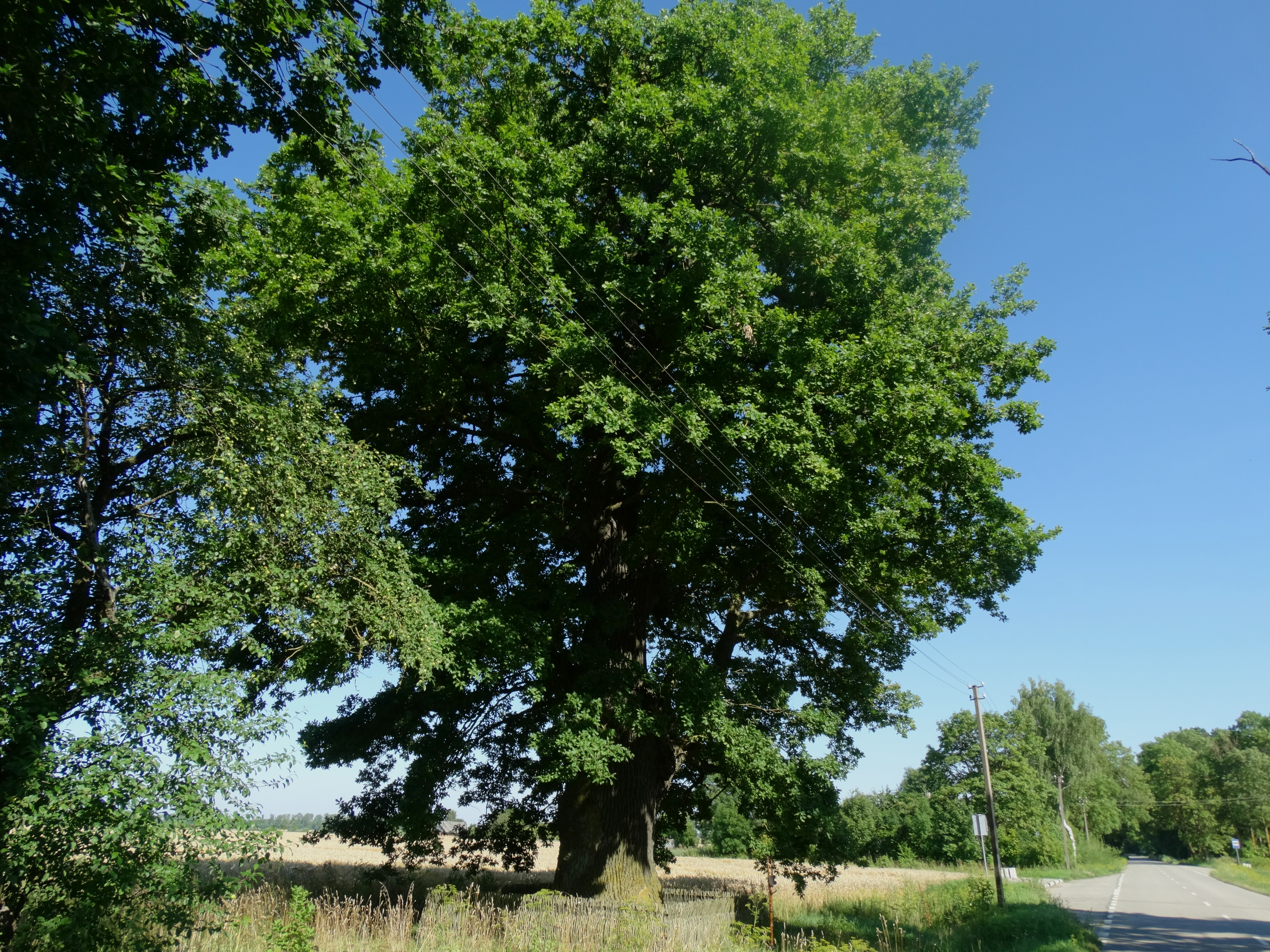 Vaineikiai, oak, Joniškis District, Lithuania